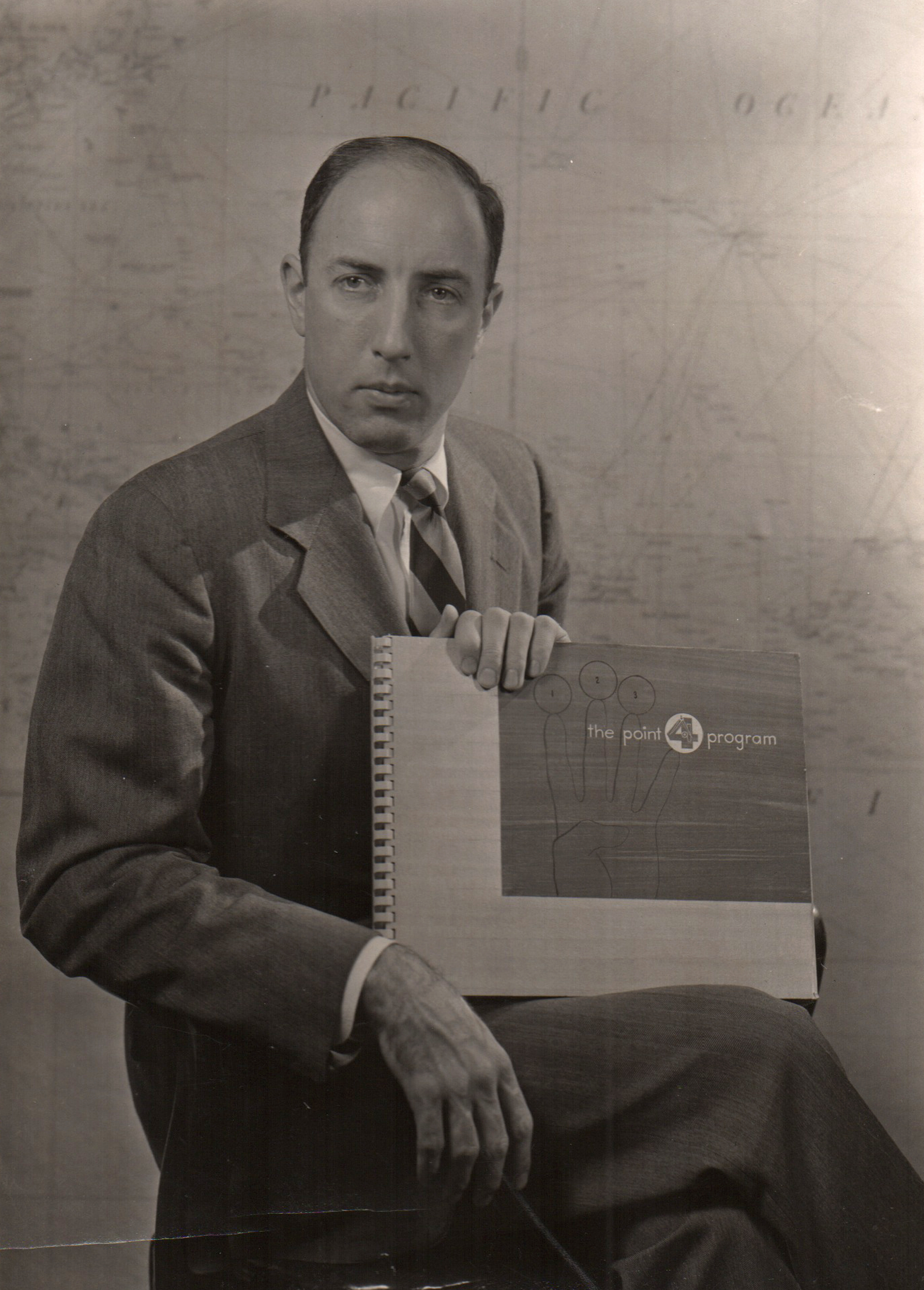 Walt serves in the US State Department